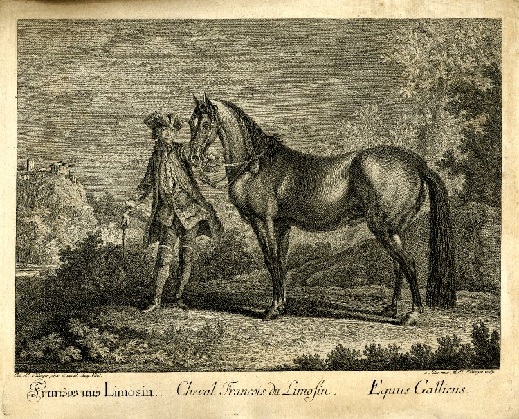 French Horse from Limosin